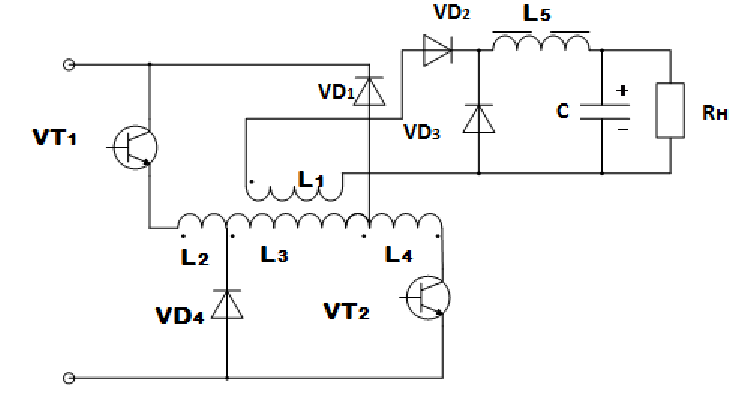 Напівмостова схема